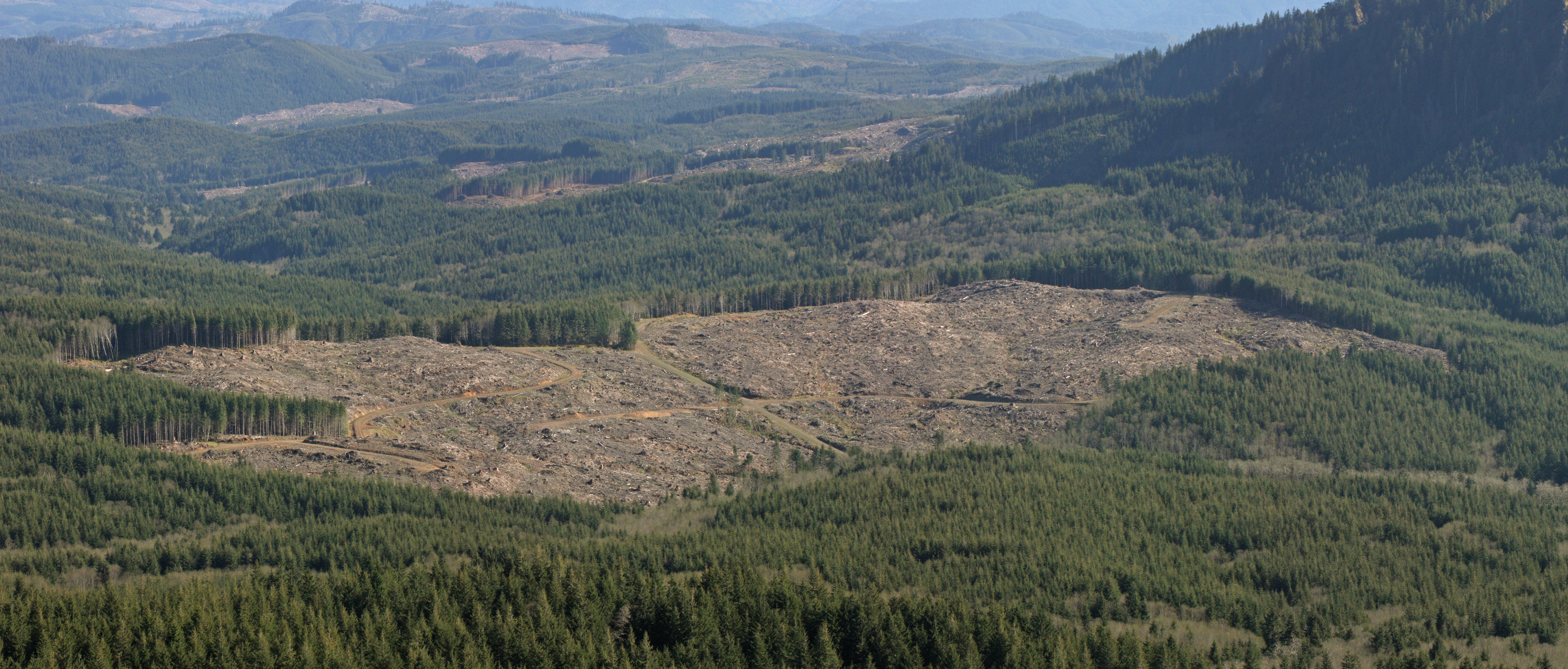 Lewis and Clark River Valley with Clearcut; Humbug Mountain (747 m, 2452 feet, right middle distance); stitched panorama; please see "Other versions" for source images. This image was created with Hugin. Viewpoint location: Saddle Mountain Trail, Saddle Mountain State Natural Area Viewpoint elevation: 663 meter (2175 ft) View direction: 175° Location source: Garmin GPSmap 60CSx Location Datum: WGS84